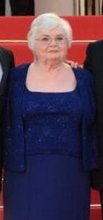 American actor June Squibb at the 2013 Cannes Film Festival.